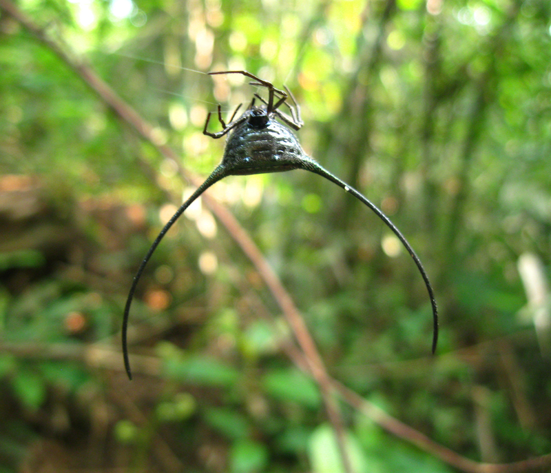 A black Gasteracantha arcuata seen in Lawachhora forest, Shrimangal, Bangladesh.